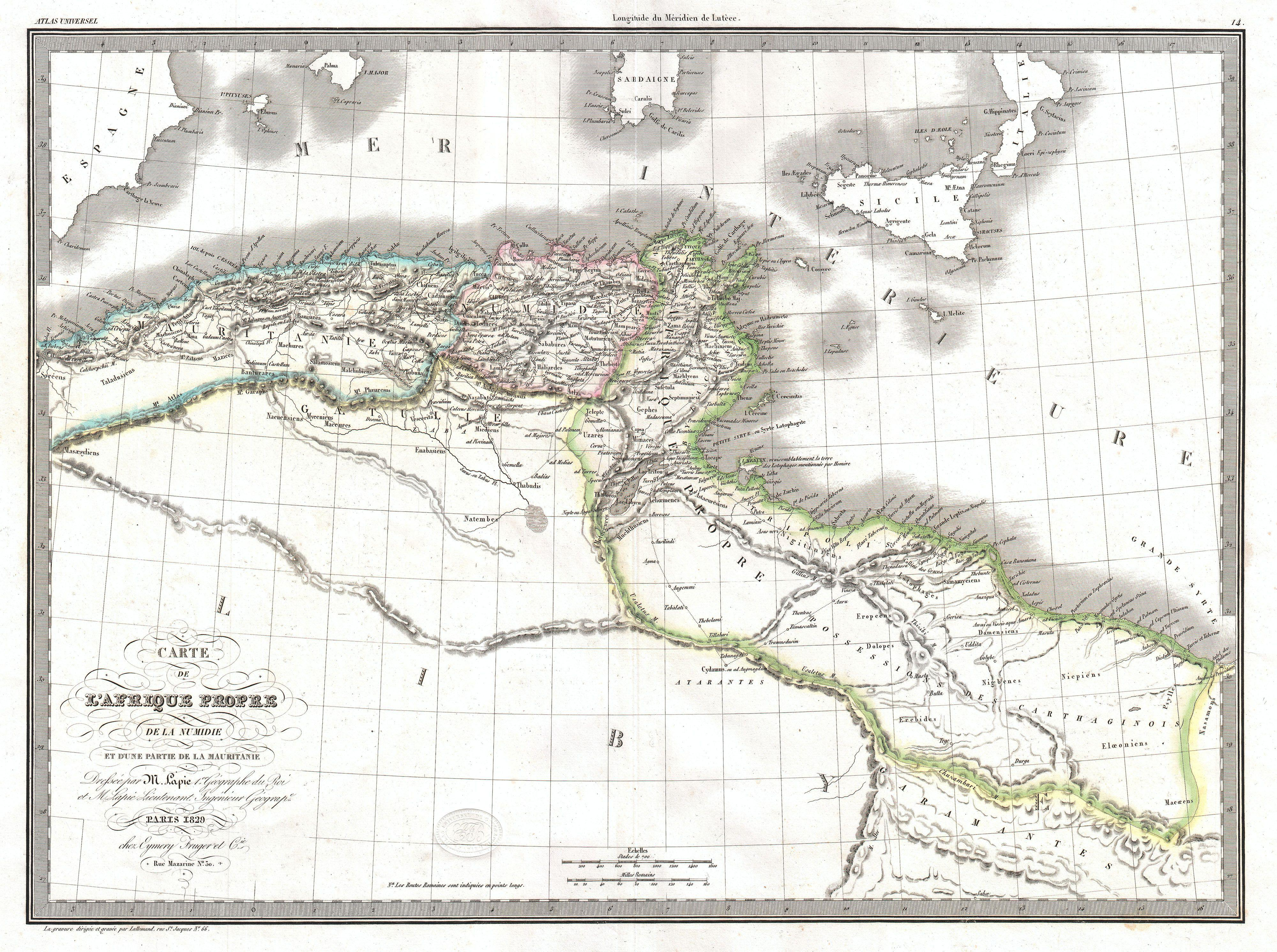 An unusual and attractive 1829 map of the ancient empires of Mauritania, Carthage, and Numidia. Depicts what is today known as the Barbary Coast around 200 BC. This map illustrates a crucial turning point early in the Second Punic War. The Carthaginian Empire dominated much of the region, until Numidia, the Kingdom to the west of Carthage, allied itself with Rome in 206 BC leading the Roman conquest of the region in 201 BC. Exhibits the typical detail and scientific precision of Lapie maps. Notes various trade routes, topographical features, and Oases. Prepared as plate no. 14 for the 1829 issue of Lapie’s Atlas Universel de Geographie Ancienne et Moderne.